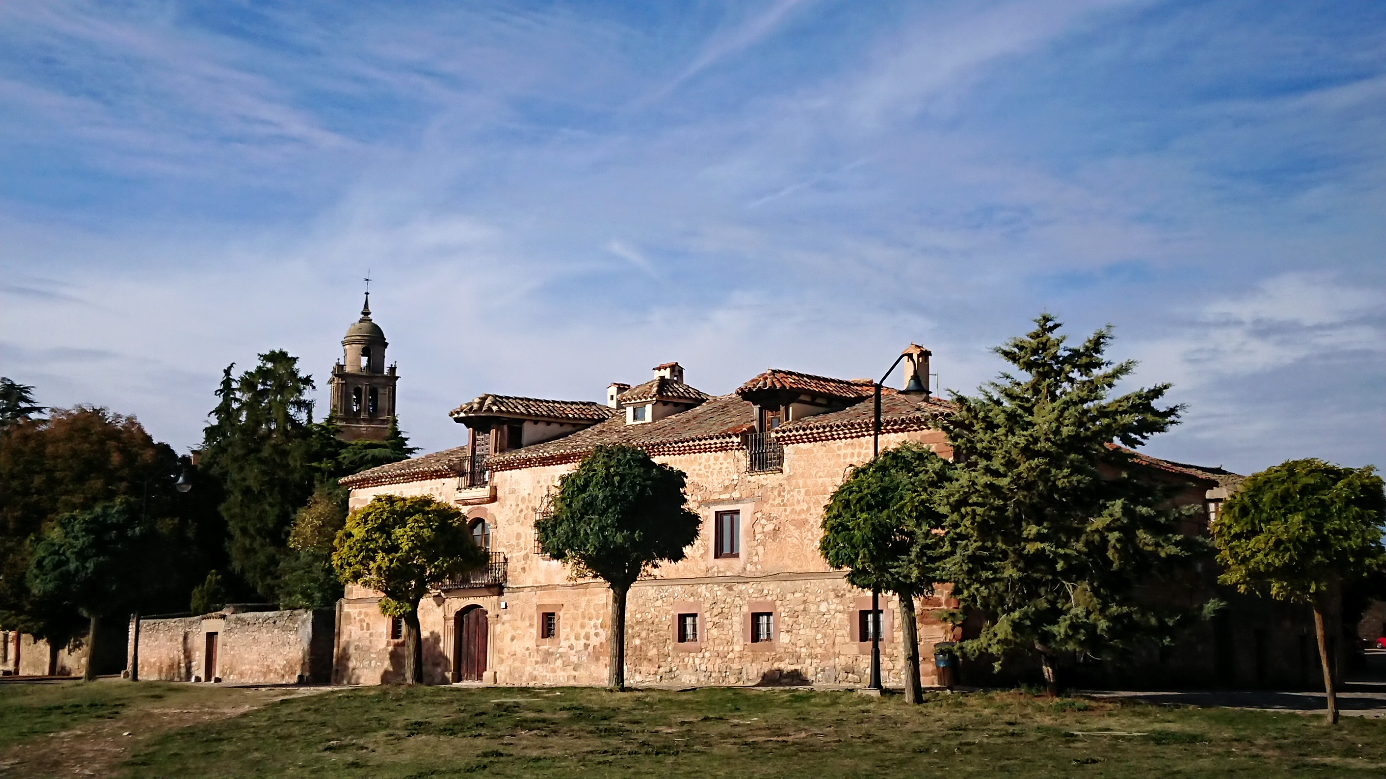 Noble house in Medinaceli, Soria (Spain)